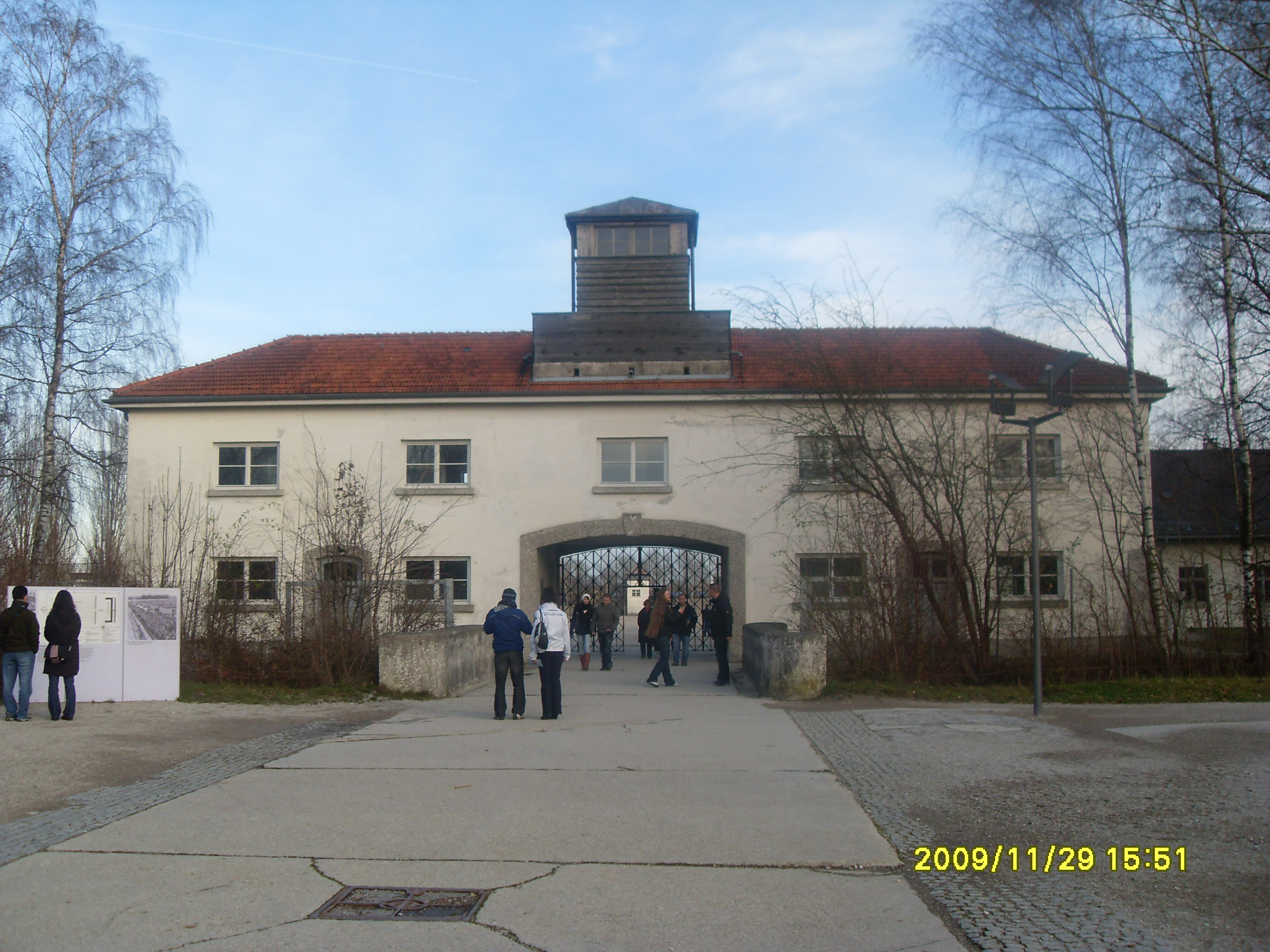 Dachau Concentration Camp, Dachau